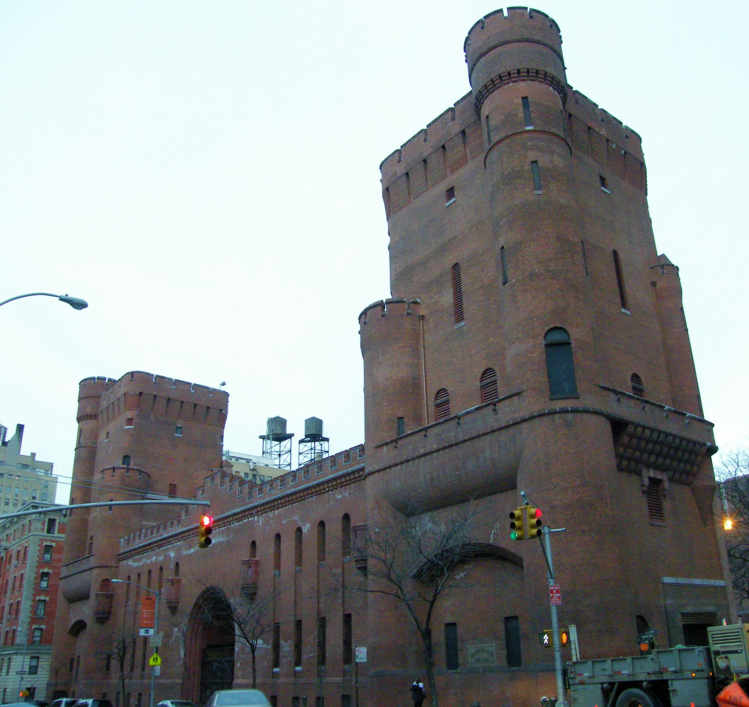 Madison Armory on National Register of Historic Places in New York City